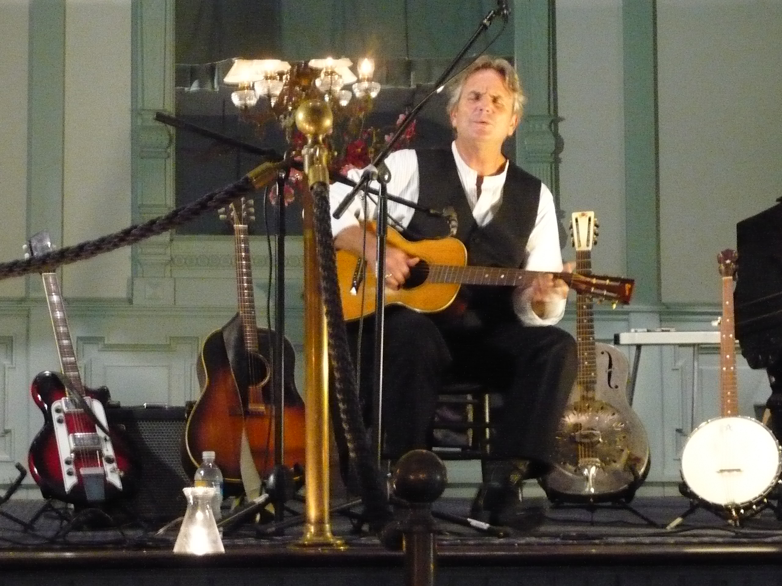 Spencer Bohren playing a steel-string acoustic guitar from the turn of the 20th century, in a lecture-performance at the G.A.R. Hall in Peninsula, United States.